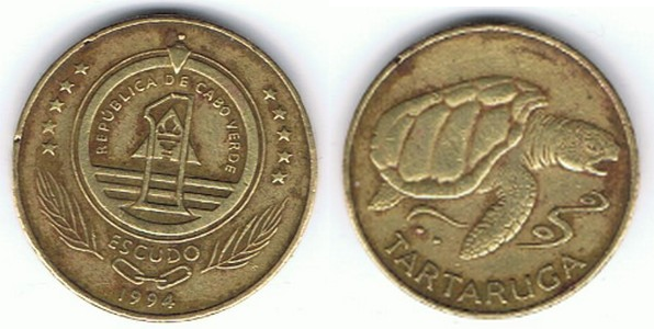 1 Escudo of Cape Verde